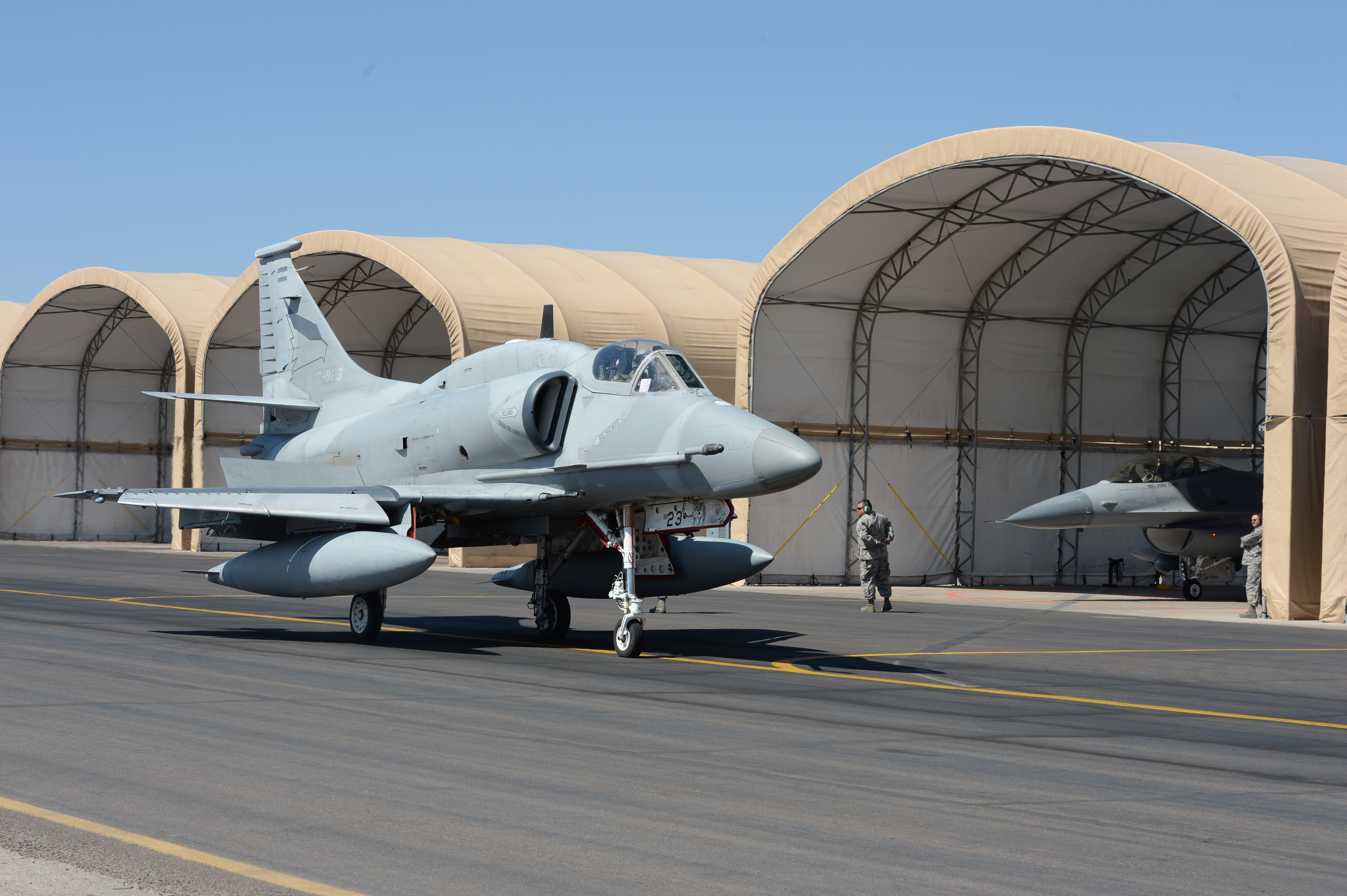 Engine mechanics from the 149th Maintenance Squadron, Texas Air National Guard perform an engine change on an F-16 Fighting Falcon during Salitre 2014, Oct. 13, at Cerro Moreno Air Force Base, near Antofagasta, Chile. Salitre is a Chilean-led exercise where the U.S., Chile, Brazil, Argentina and Uruguay, focus on increasing interoperability between allied nations. (Air National Guard photo by Senior Master Sgt. Miguel Arellano/released)